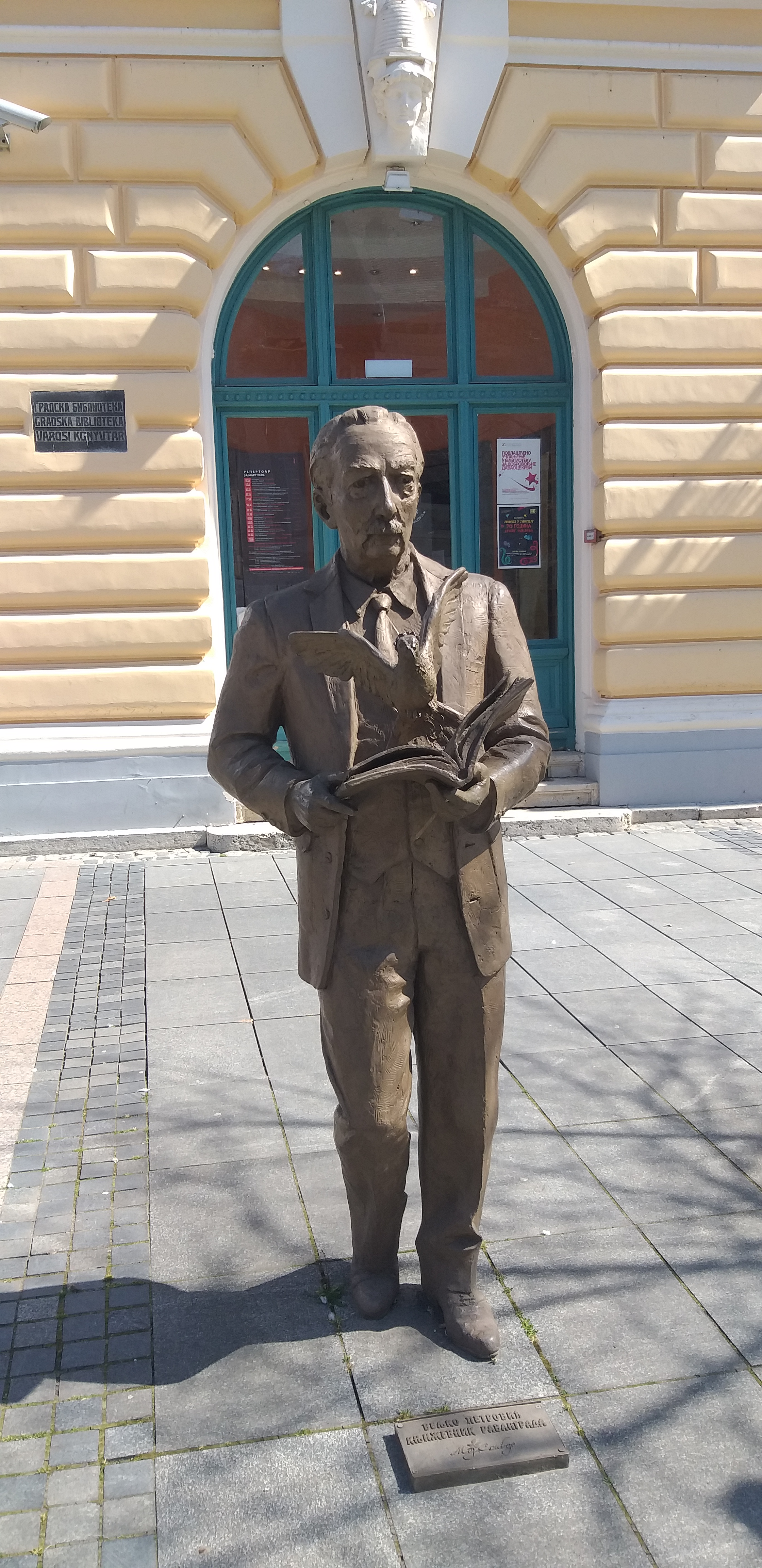 spomen-obeležje Veljko Petrović